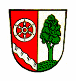 Coat of Arms of Elsenfeld